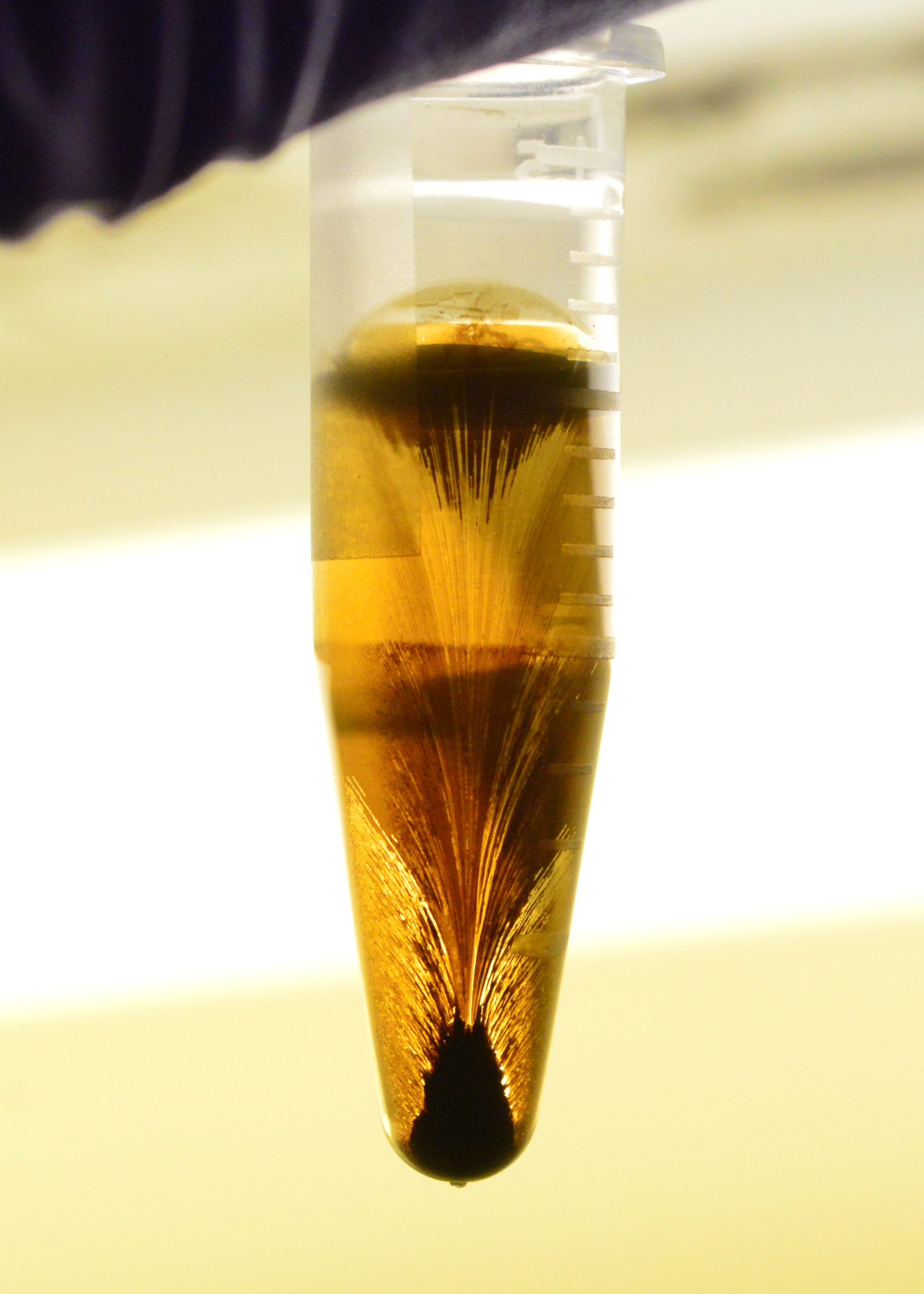 Superparamagnetic iron oxide nanoparticles after being centrifuged in microtube.